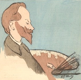 Alphonse Osbert - Les Hommes d'aujourd'hui N°419